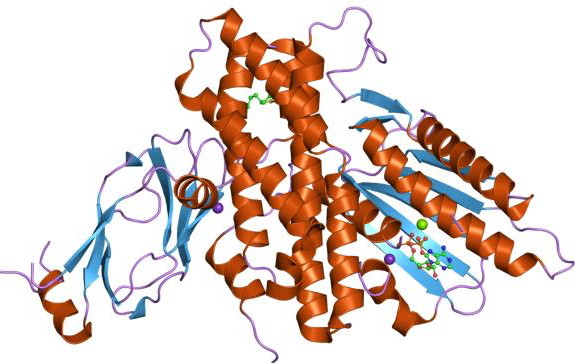 Cartoon representation of the molecular structure of protein registered with 1y8o code.